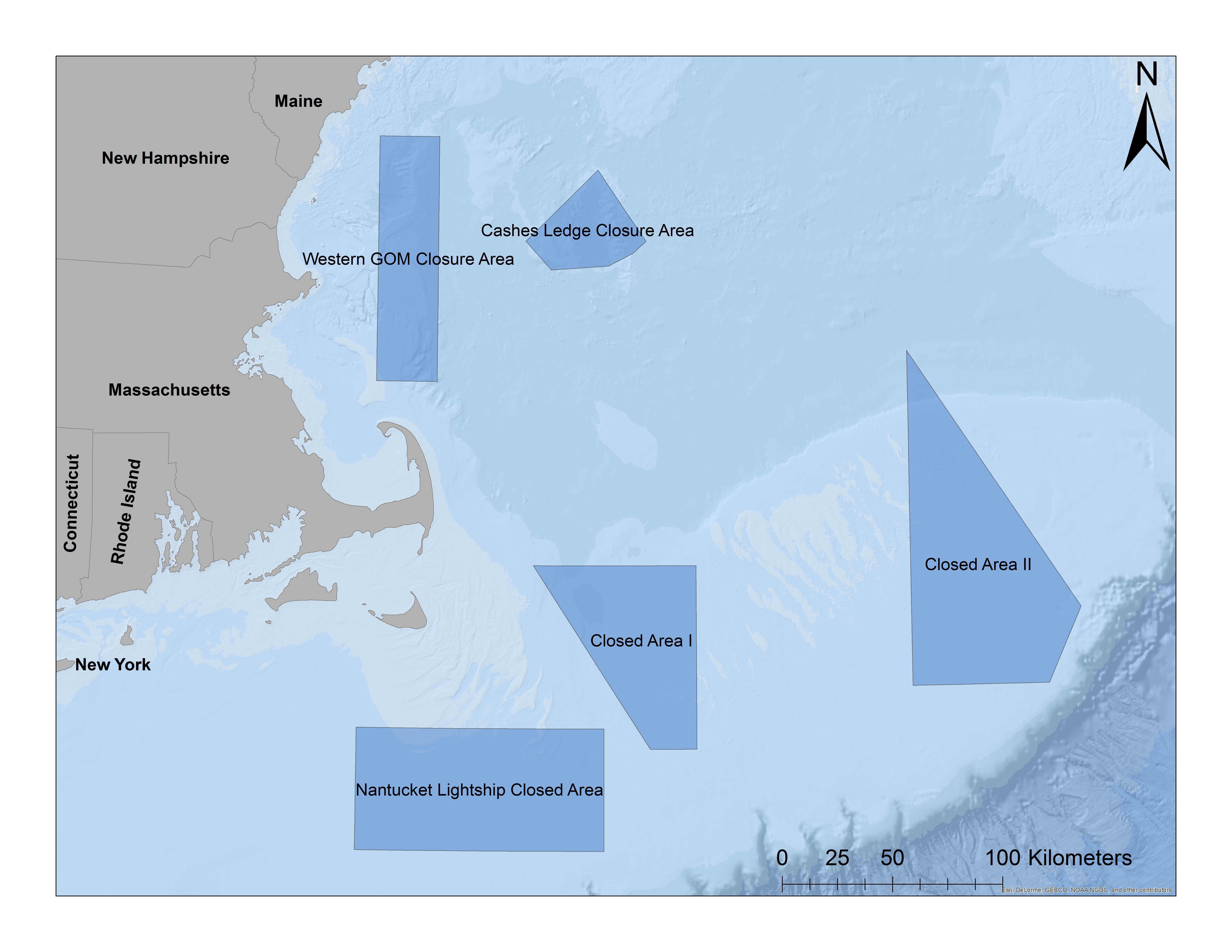 Areas in the Gulf of Maine that are closed to fishes and other marine pressures.